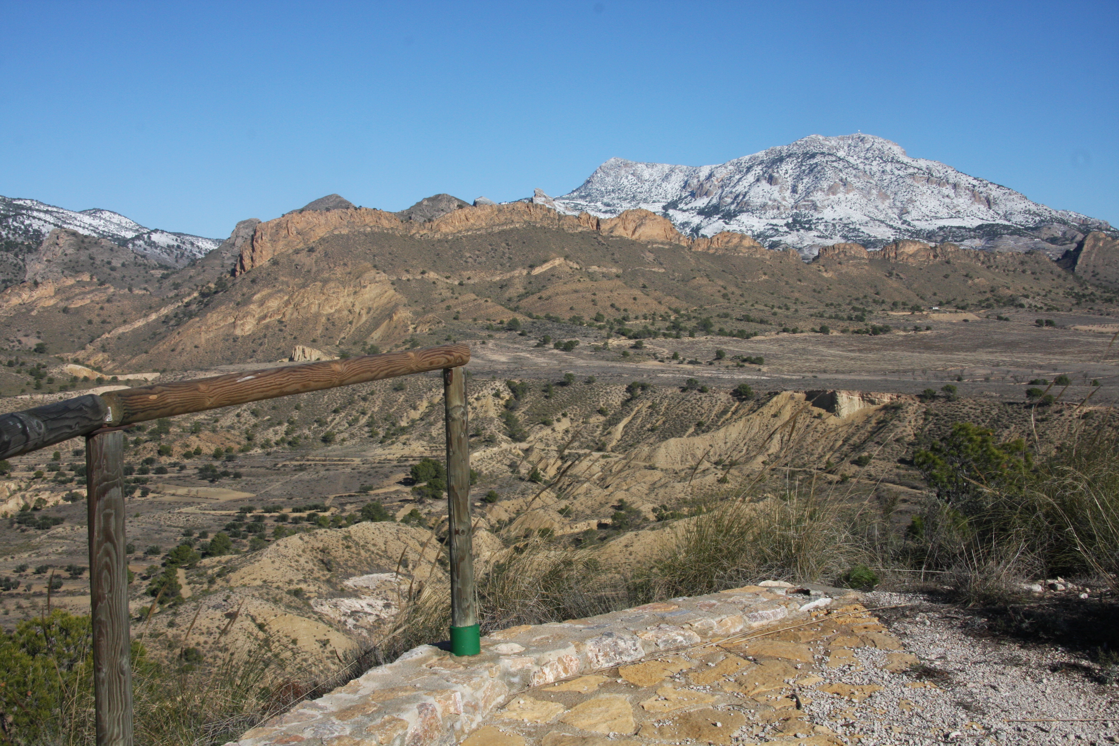 LOMA DE PLANES y SIERRA DE LA PILA desde el PARQUE ECOLÓGICO VICENTE BLANES